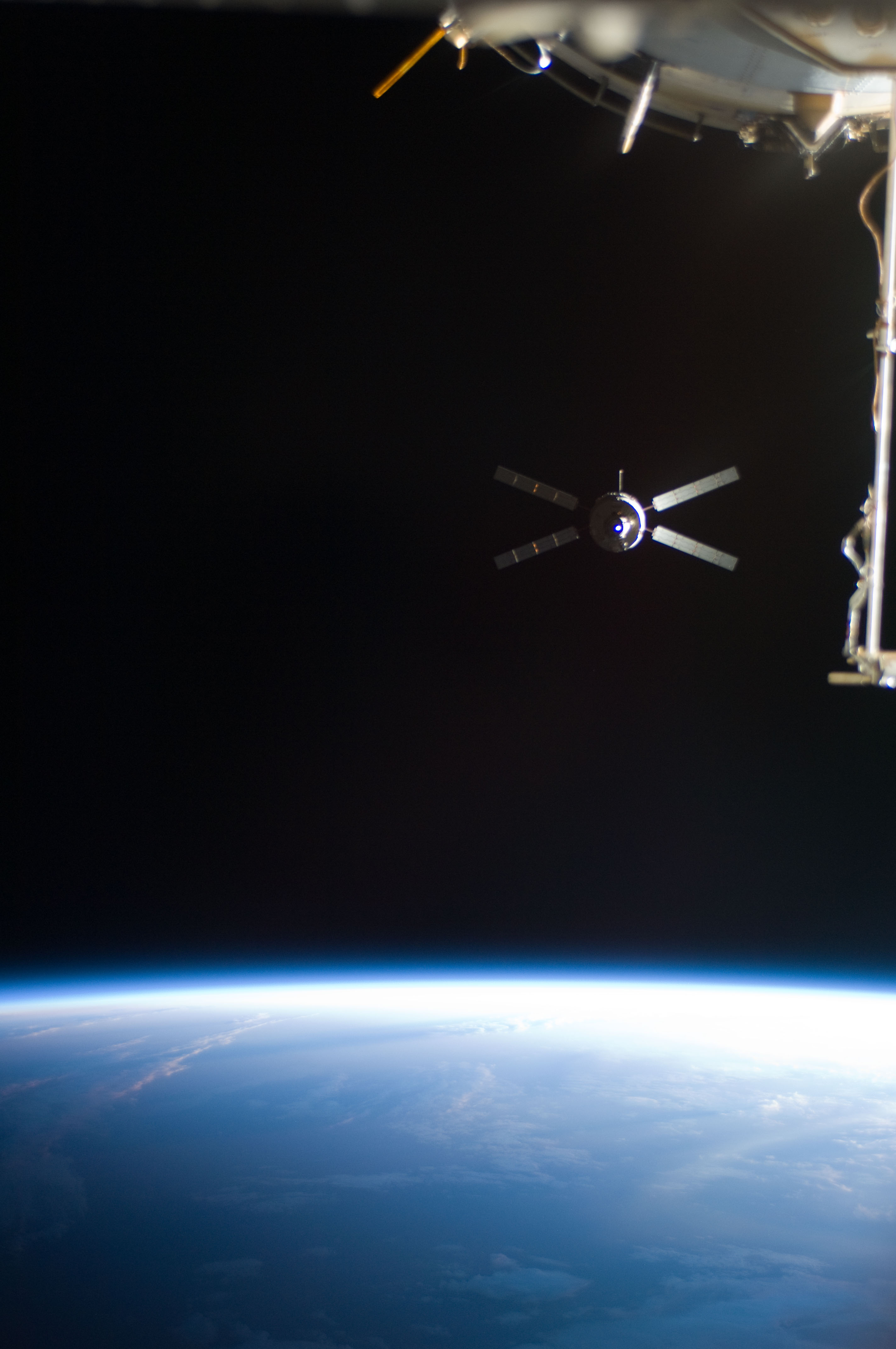 Backdropped by Earth's horizon and the blackness of space, European Space Agency's (ESA) "Johannes Kepler" Automated Transfer Vehicle-2 (ATV-2) begins its relative separation from the International Space Station. The ATV-2 undocked from the aft port of the Zvezda Service Module at 10:46 a.m. (EDT) on June 20, 2011.